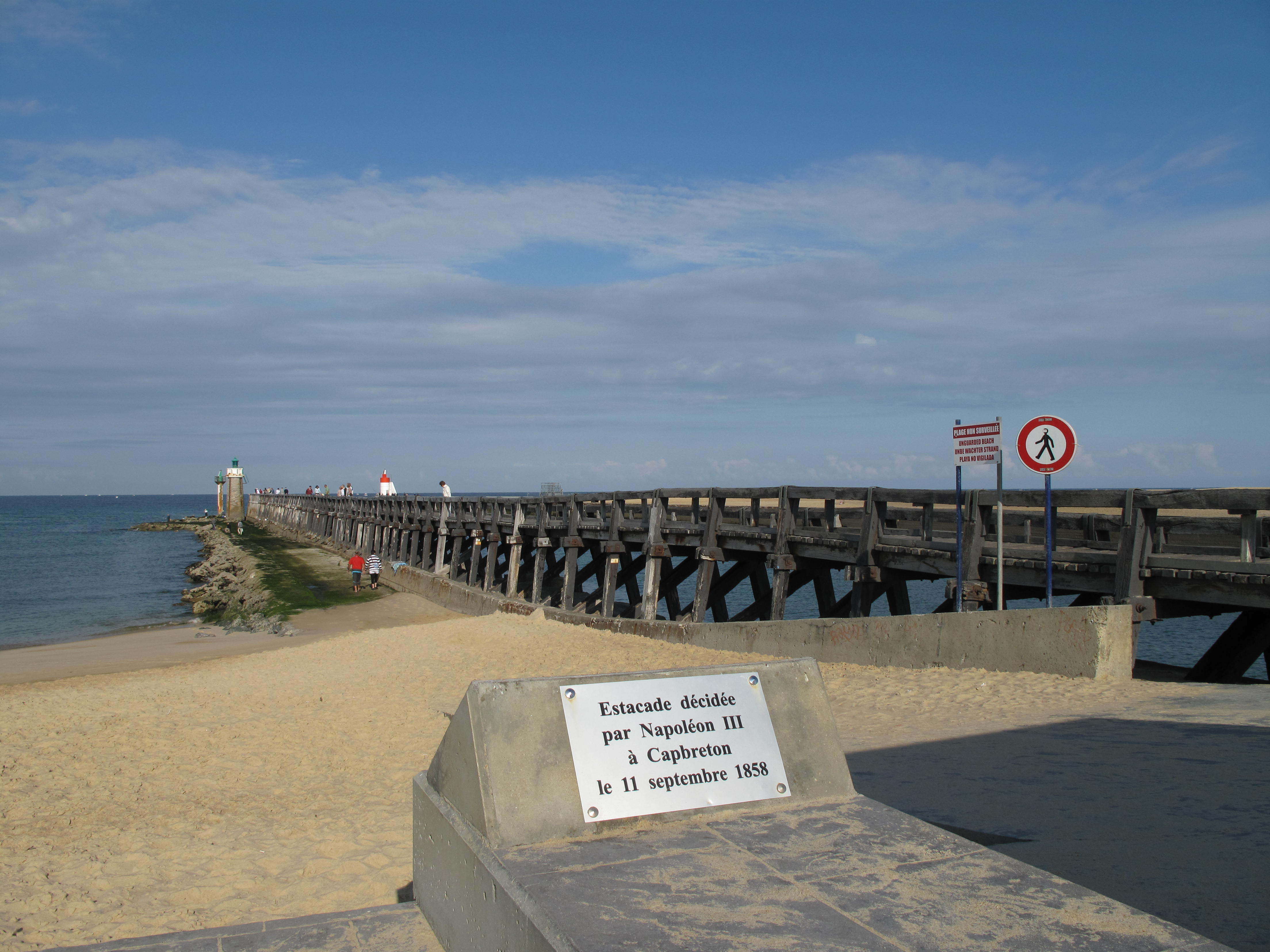 Overview of the estacade of Capbreton (Landes, France)